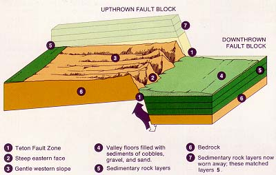 Schematic diagram of the Teton fault and the orogenesis of the Teton Range, Wyoming.